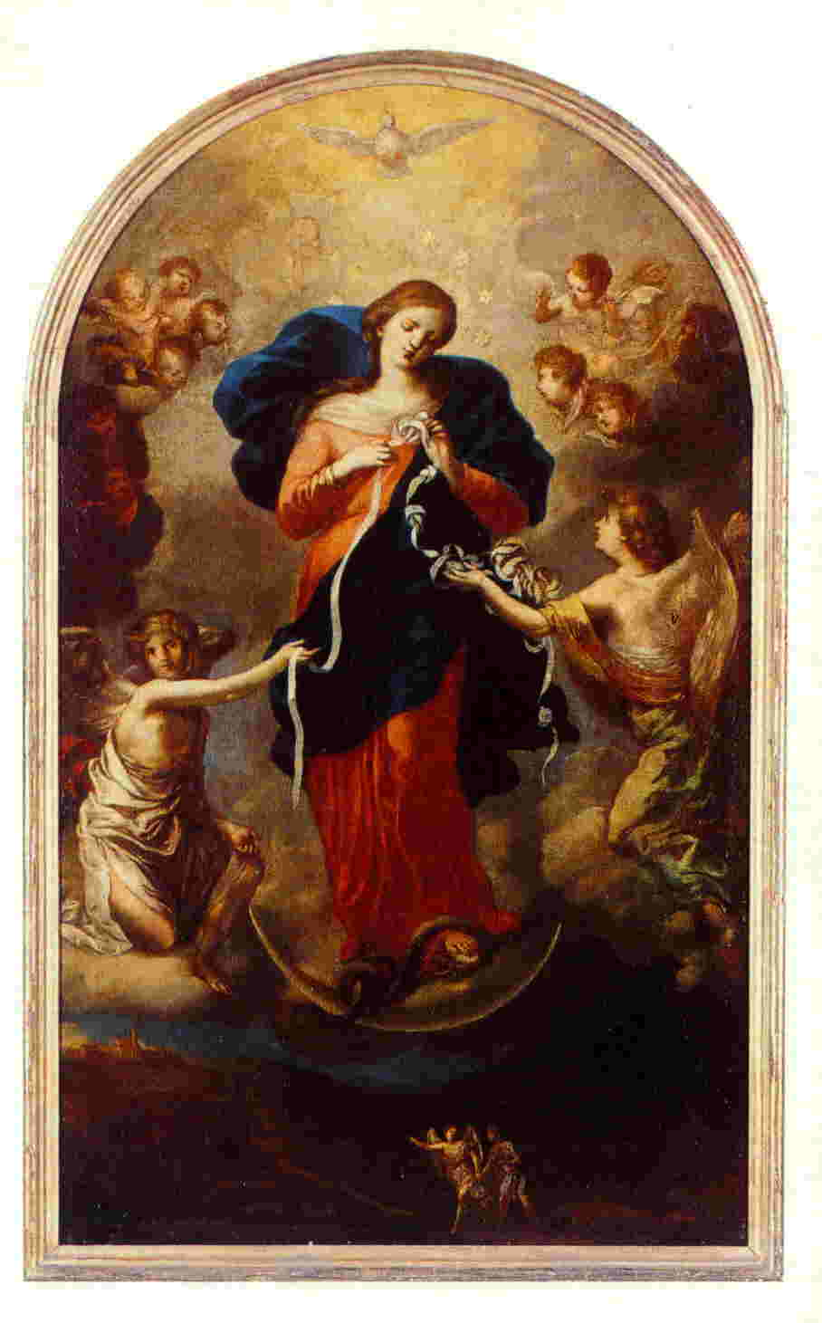 Maria Untier of Knots